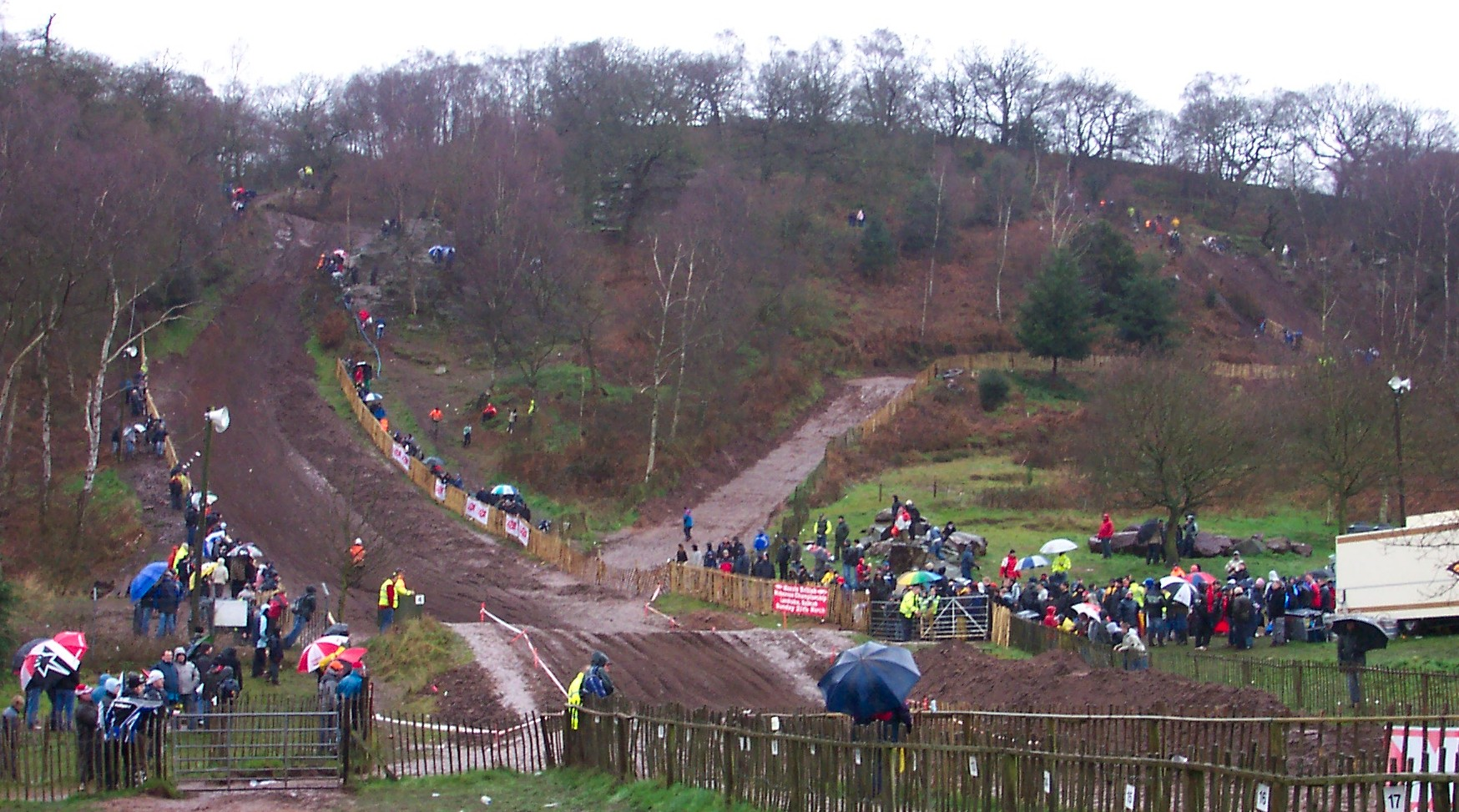 Hawkstone Park motorcross circuit - Hawkstone Hill, from the 2007 Hawkstone International motocross meeting